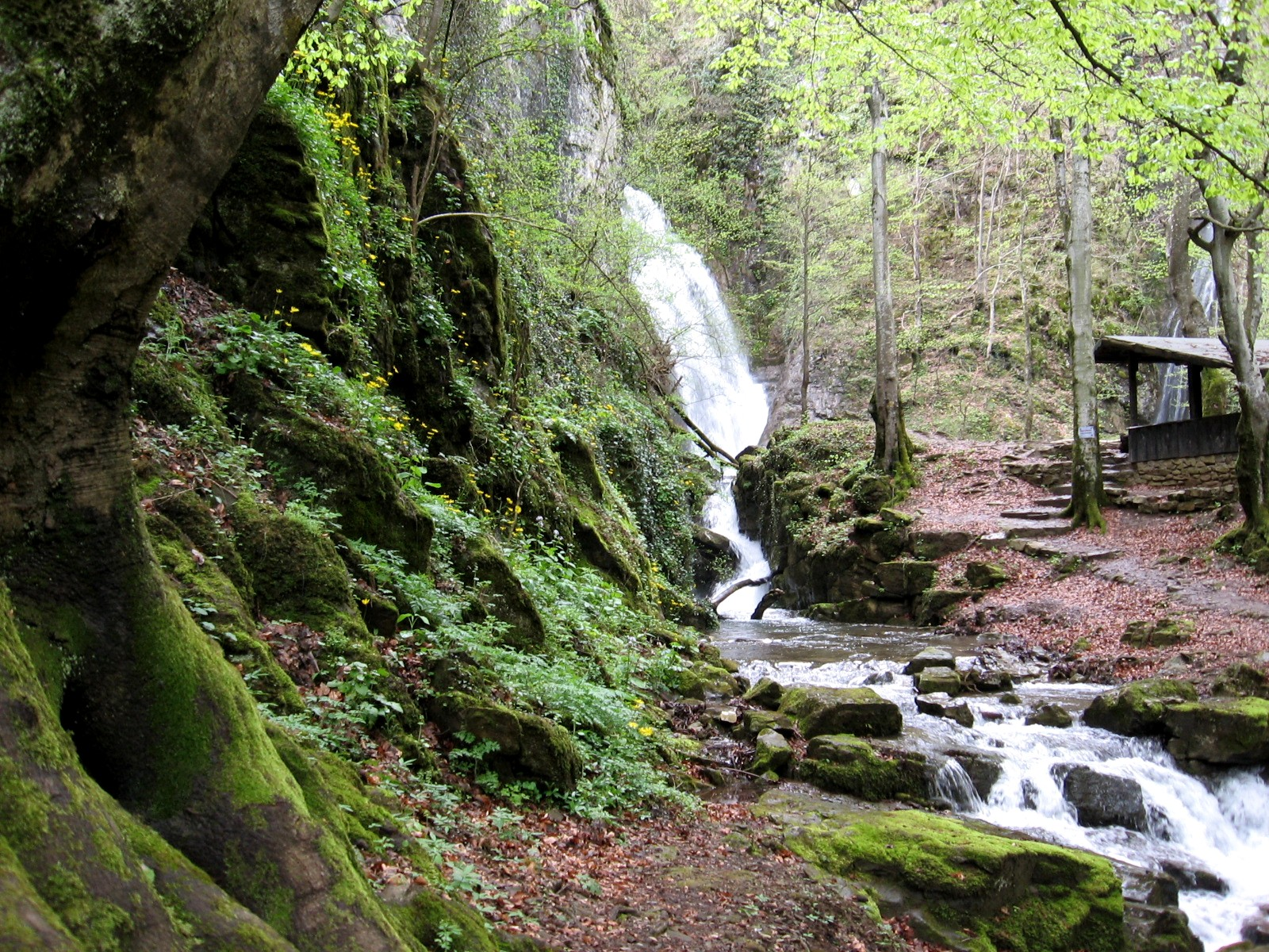 Waterfall Skoka Teteven